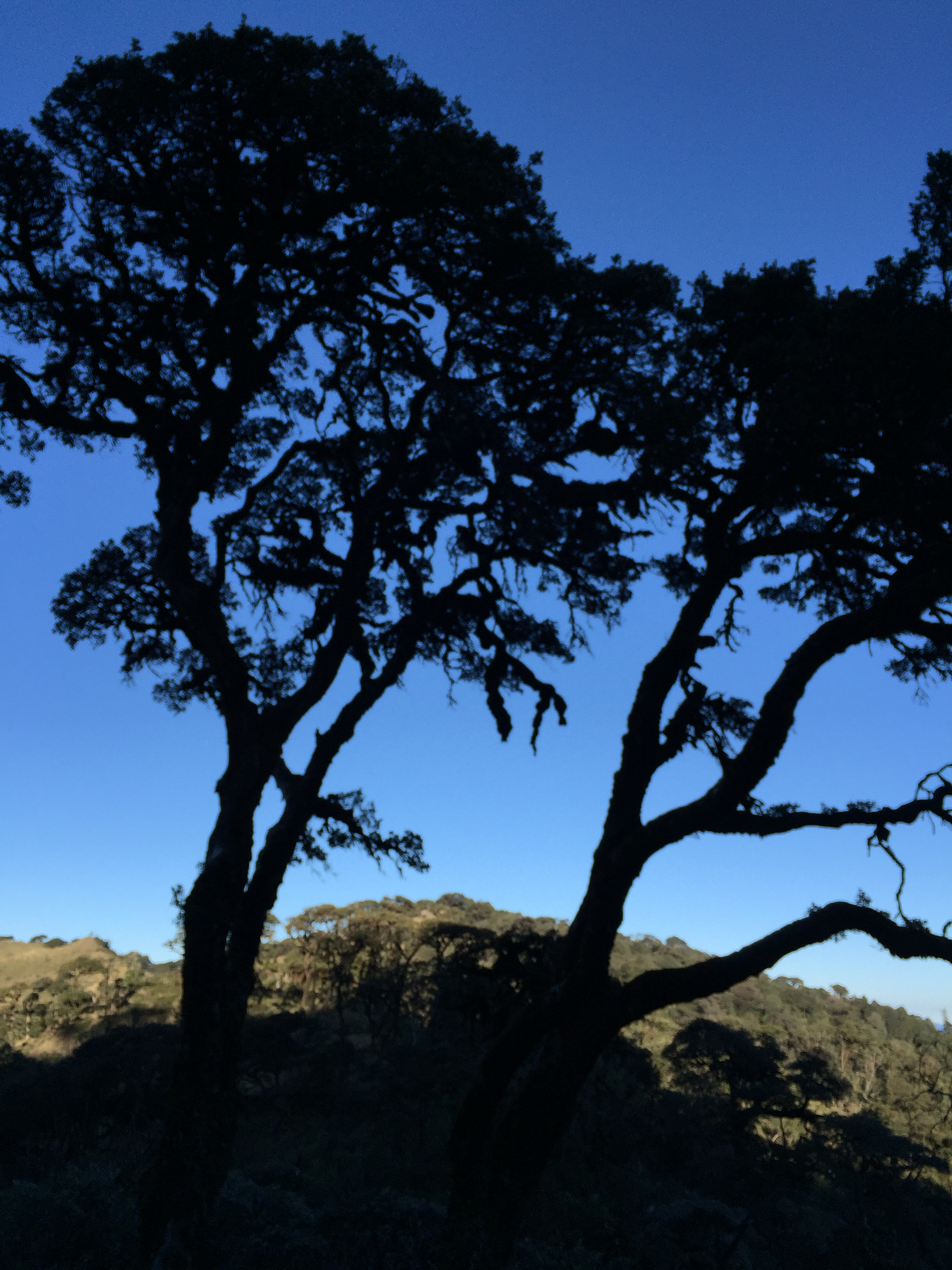 Nat Ma Taung/Mount Victoria between the trees မြန်မာဘာသာ: သစ်ပင်များကြားမှ တွေ့ရသော နတ်မတောင်